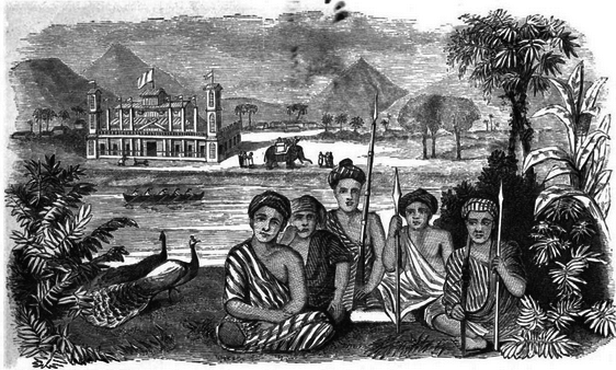 Karen National Institute for Girls, Toungoo, Burmah, and the Native Board of Managers in their hunting dresses